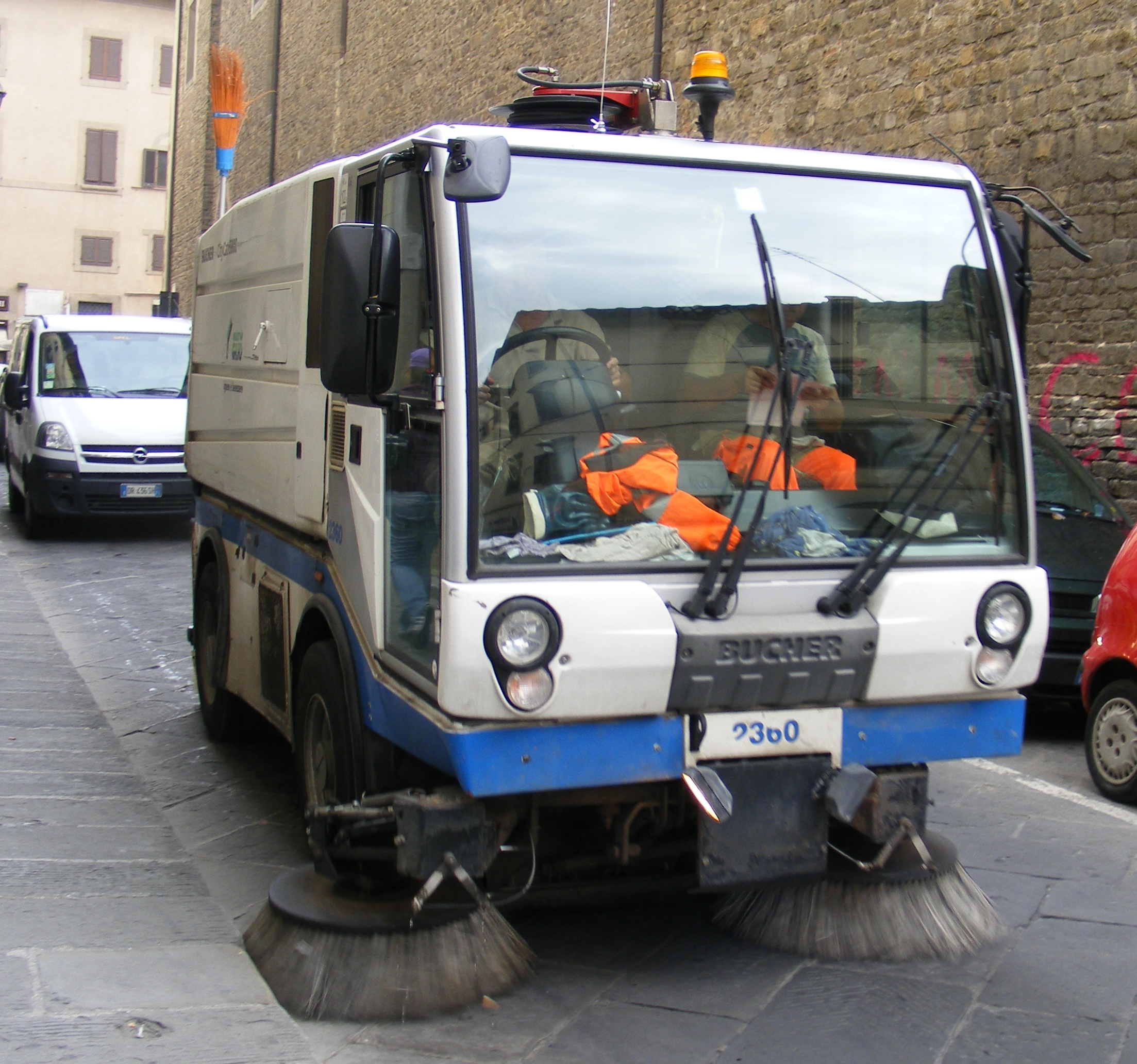 Florence - Bucher Compact sweeper